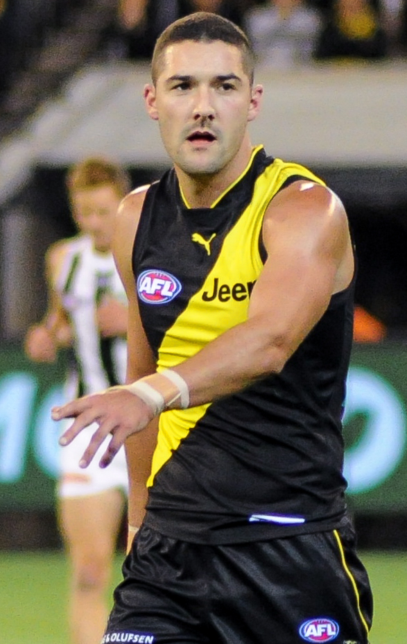 Shaun Grigg during the AFL round two match between Richmond and Collingwood on 30 March 2017 at the Melbourne Cricket Ground in Melbourne, Victoria.